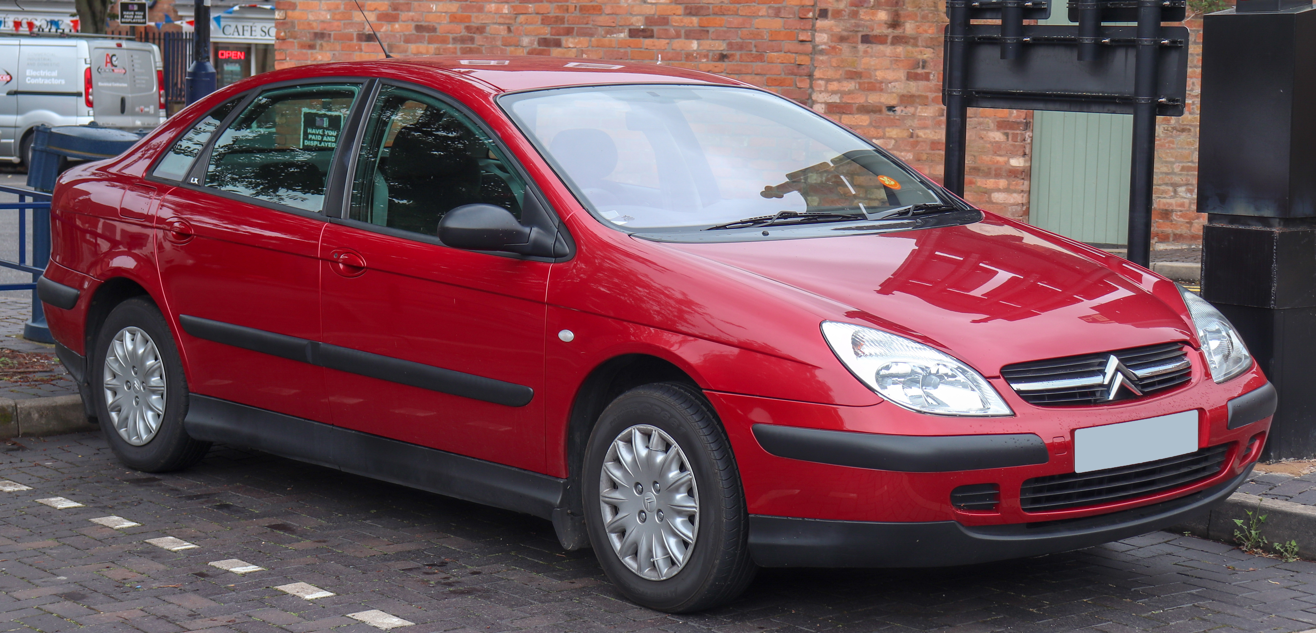 2004 Citroen C5 LX 1.7 Taken in Warwick